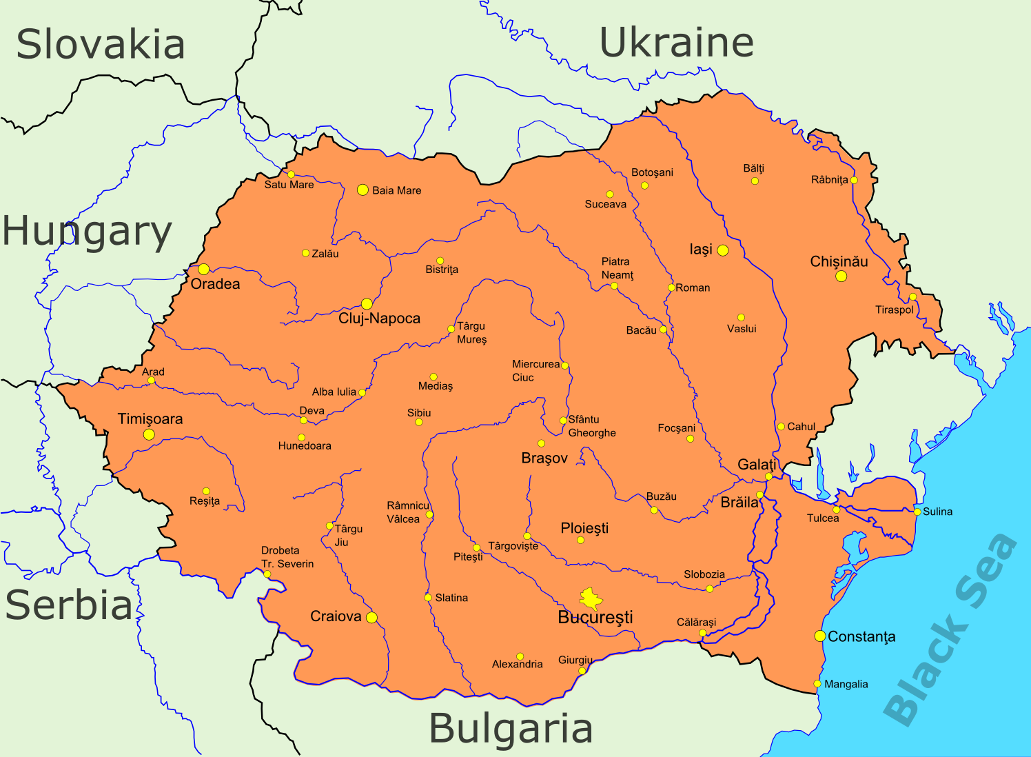 Hypothetical Map of Romania - Moldova Union (including Transnistria). Map advocated by the Unionist Movement.